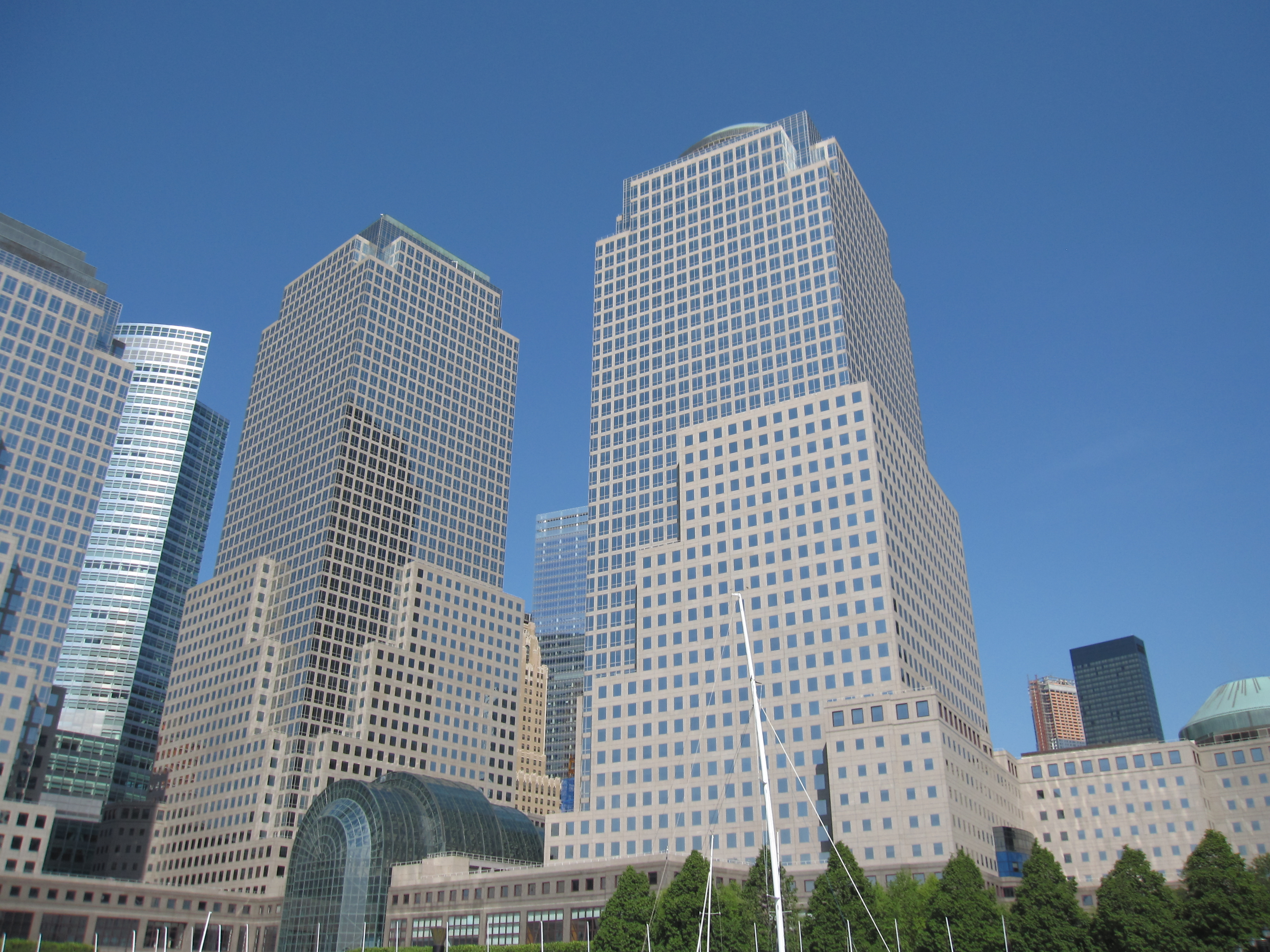 North Cove at Battery Park City